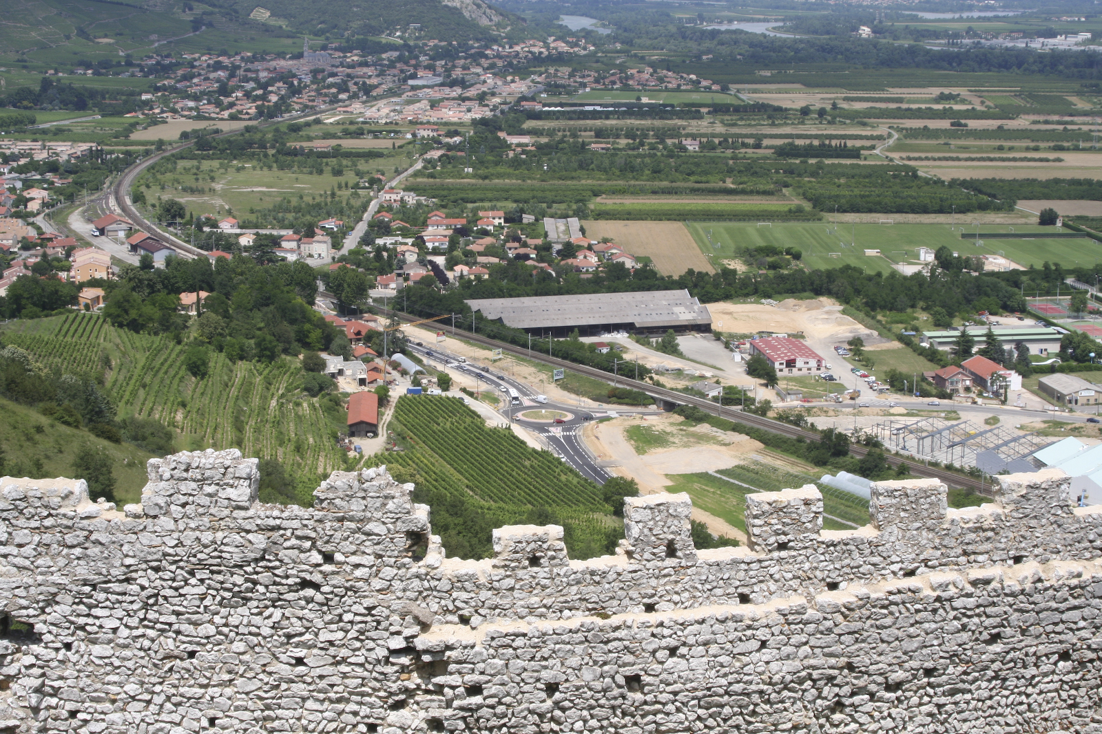 A view of the valley from the walls of Crussol Castle